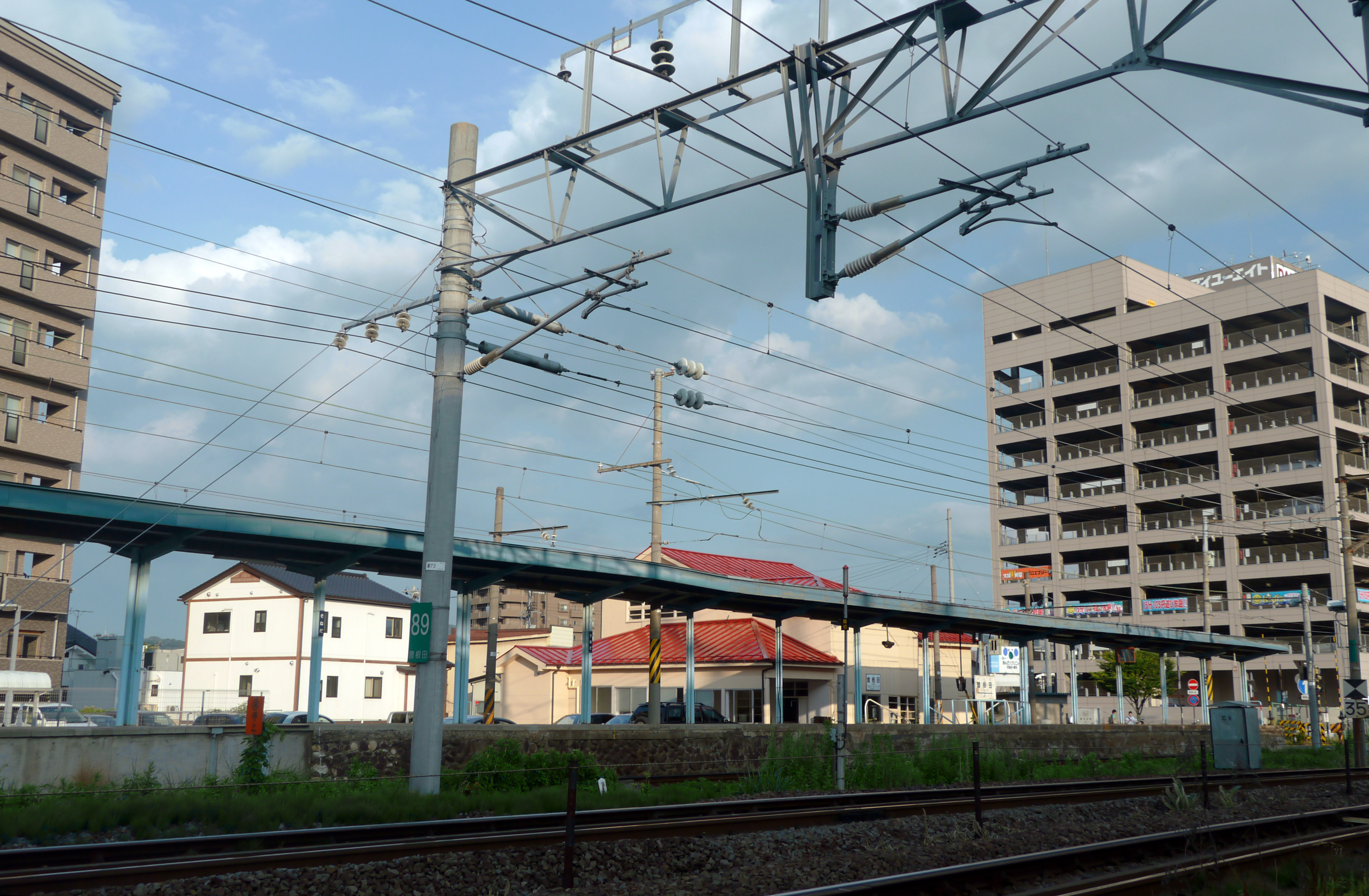 Fukushima Kotsu Iizaka Line Soneda Platform in Fukushima, Fukushima, Japan